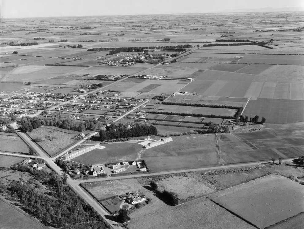 The town of Lincoln, Canterbury, New Zealand, photographed by Whites Aviation, 1 May 1957